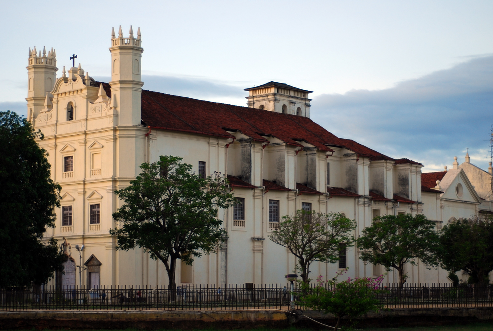 St Francis Church at Goa Velha / Old Goa (Goa, India)